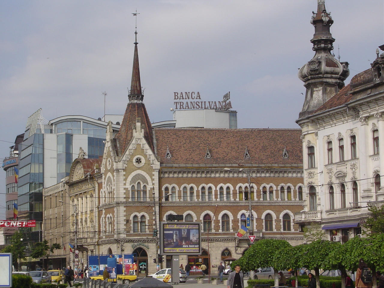 Cluj-Napoca, Széki PalaceCluj-Napoca (Kolozsvar-092)